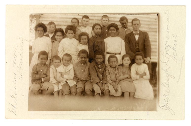 Children attending Joskeleigh Provisional School. (Group photograph)